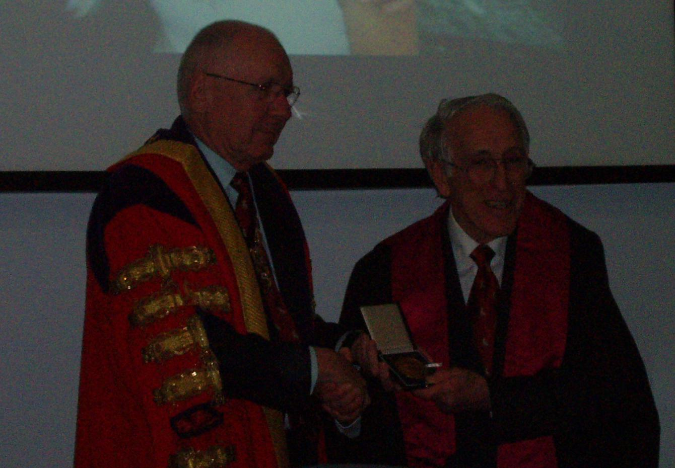 Graeme Clark (right) receiving the 2010 Lister Medal from John Black (left), the President of the Royal College of Surgeons of England, following Clark's delivery of the Lister Oration. Photographed at the Royal College of Surgeons of England, Lincoln's Inn Field, London, UK.